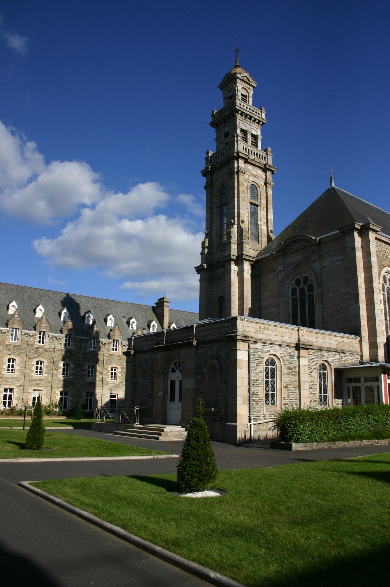 View from inside the Monastery of St. Anne (Lannion, Brittany, France).